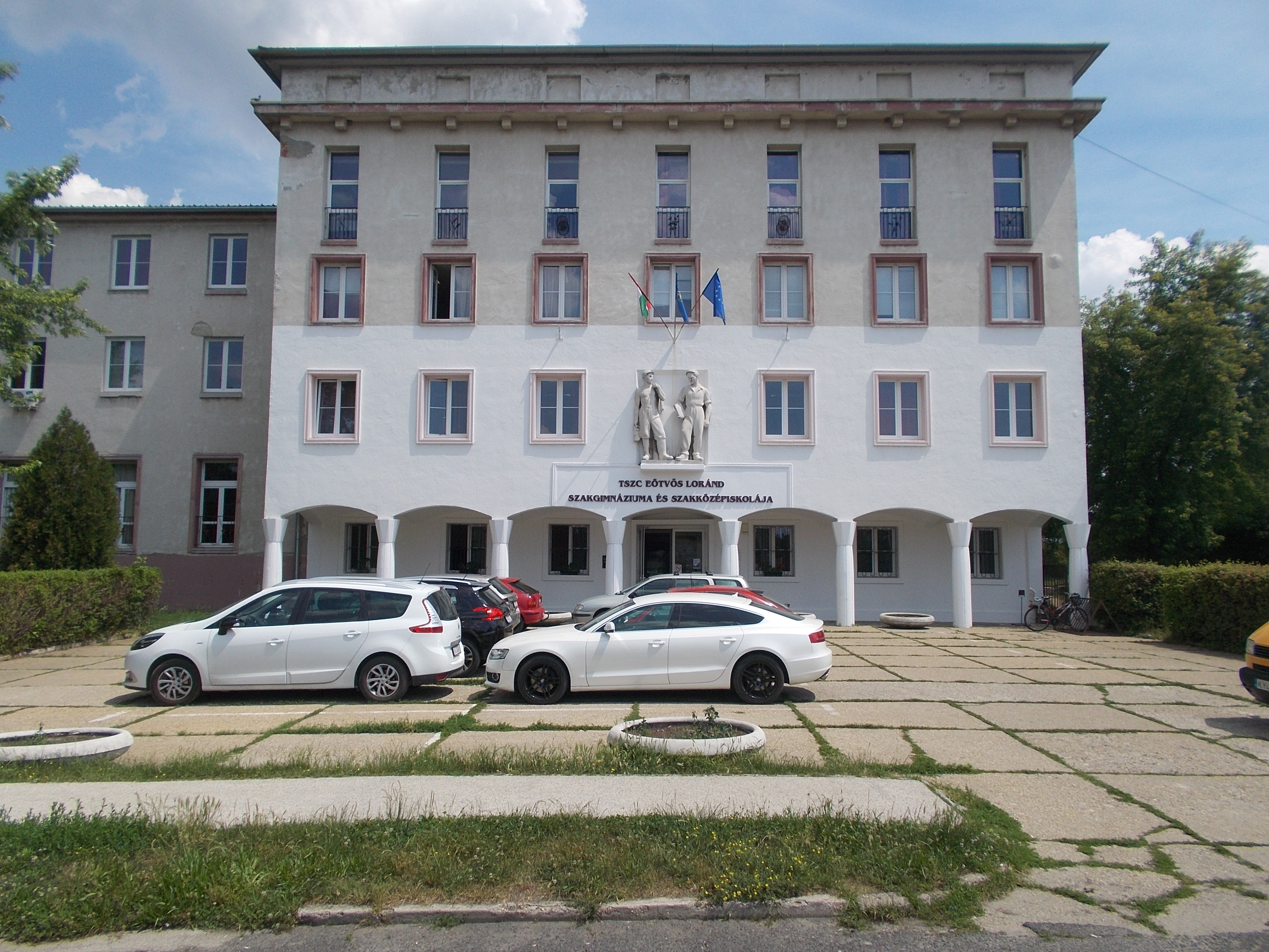 Former collier? school (vocational school) built in 1952 and 1953? planned by Pál Németh and Gyula Tálos, now Tatabánya Vocational Training Center Loránd Eötvös High School and Secondary School and Bálint Bakfark Elementary Art School. - 2 Asztalos János street, Oroszlány, Komárom-Esztergom County.